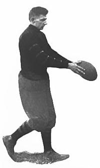 Zach Curlin, Vanderbilt football player, drop kicking a football